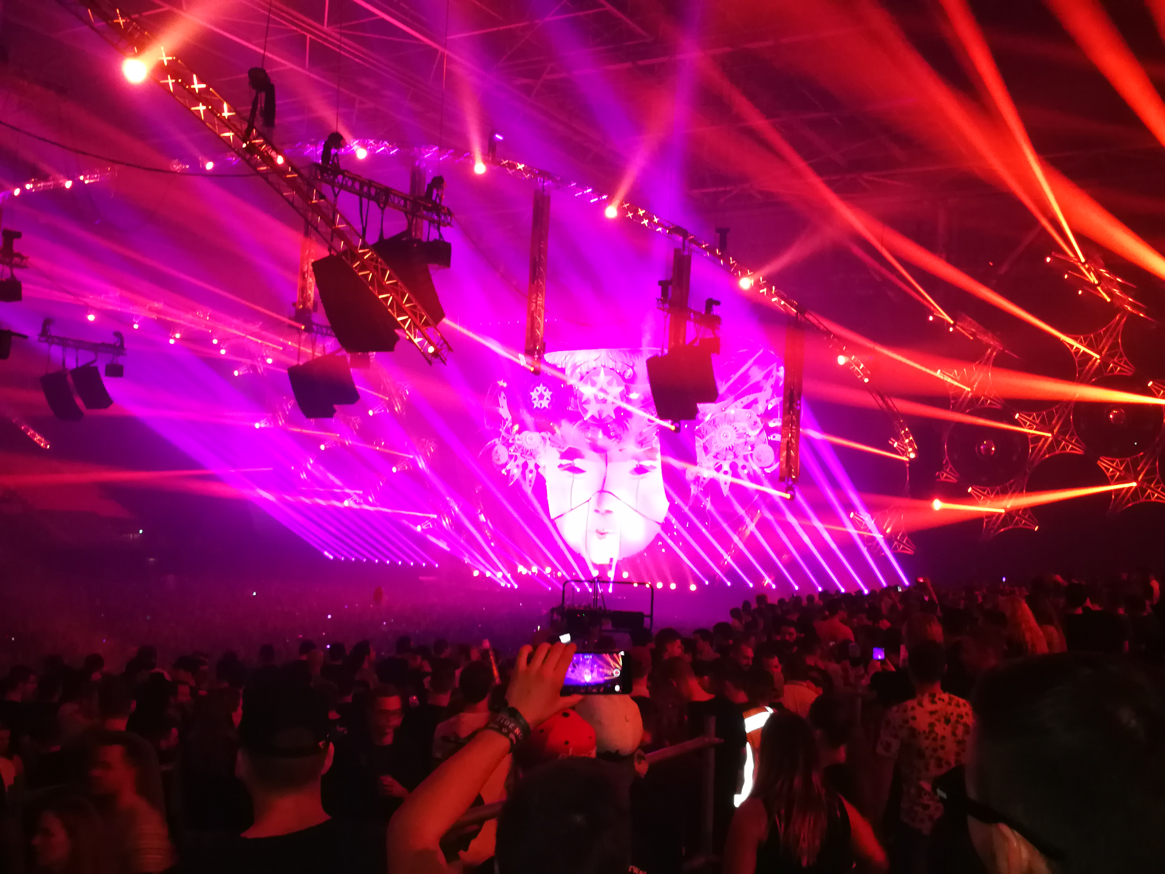 Qlimax Stage 2018